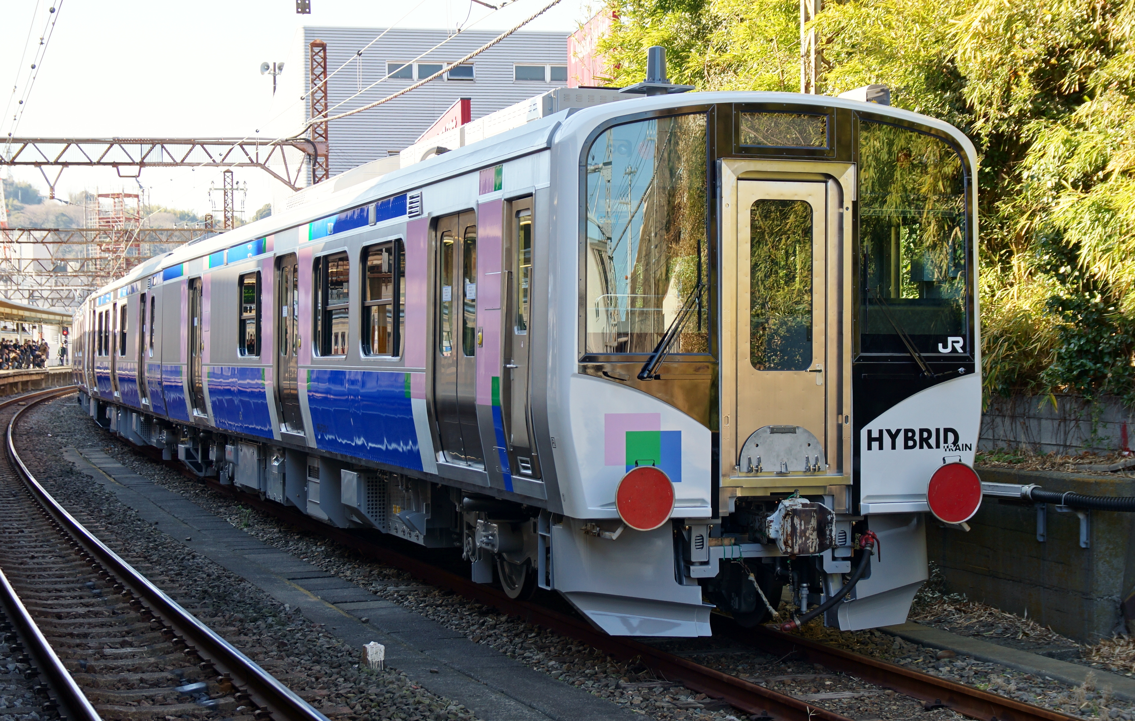 JR East HB-E210 series hybrid diesel/battery multiple units C-1 and C-2 at Zushi Station on delivery from the J-TREC factory in Yokohama